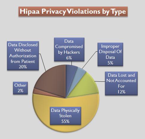 This chart breaks Hipaa Privacy Violations down by the percentage of total violations for each violation type. Based on data available from The U.S Department of Health and Human Services for the period 9/22/2009 to 07/04/2012. Includes the following types: sensitive data disclosed without permision, data compromised by hackers, improper disposal of data, data lost and not accounted for, data physically stolen, and other/unknown. I created this chart in Microsoft Excel 2010 using the information provided on this page of the website. I altered the descriptions used by HHS to make them more descriptive. For example, I changed 'Theft' to 'Data Stolen Physically' as it specifically refers to data that was stolen by physically carying an item out of the place of business.